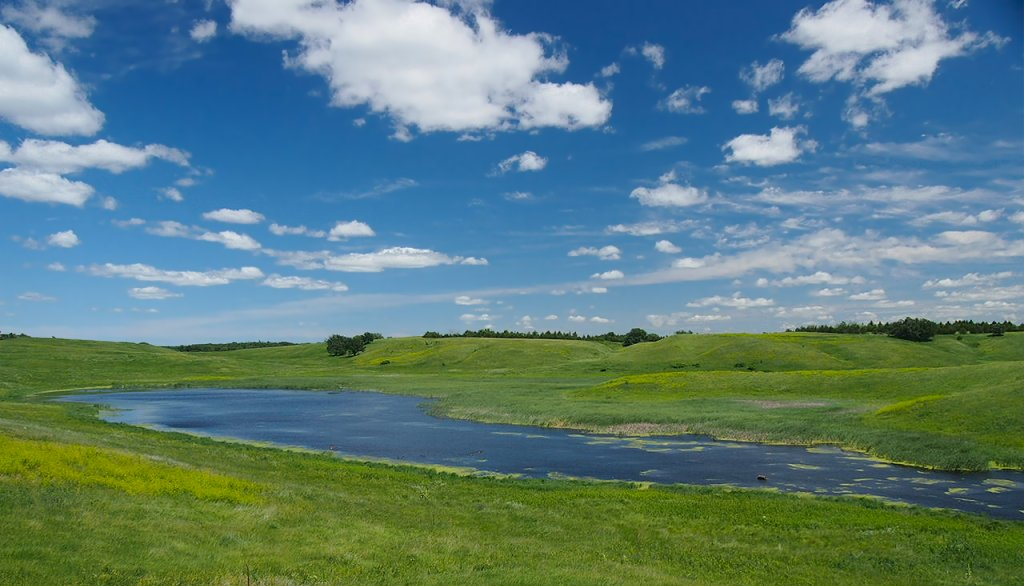 Wolf Lake Waterfowl Production Area, Windom Wetland Management District, Lakeside Township, Minnesota, USA.